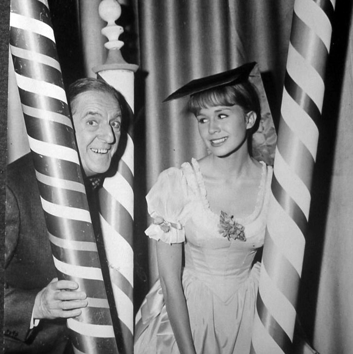 Publicity photo of Stanley Holloway and Regina Groves from the television program Our Man Higgins.